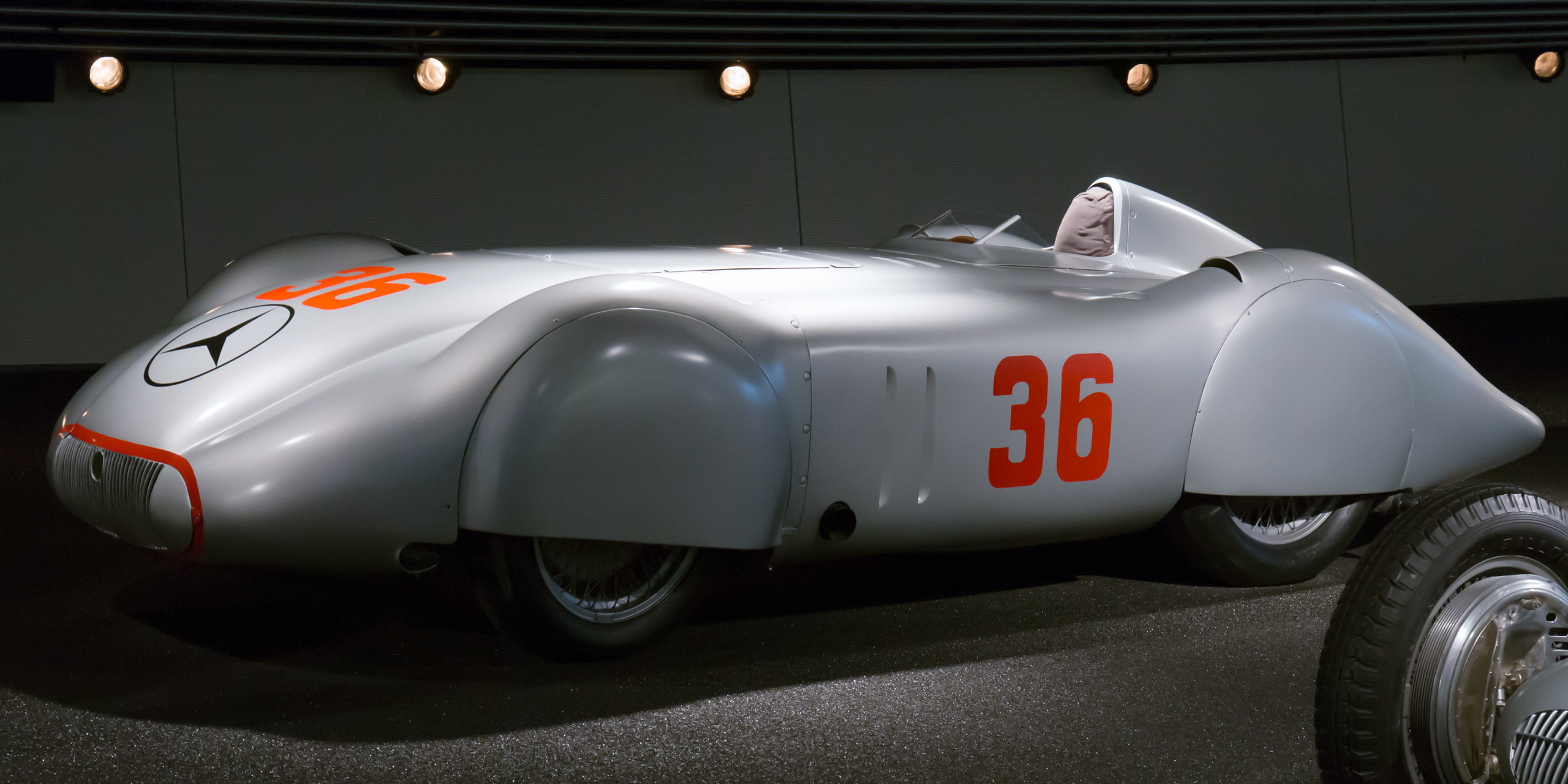 1937 Mercedes-Benz W25 "AVUS" streamliner